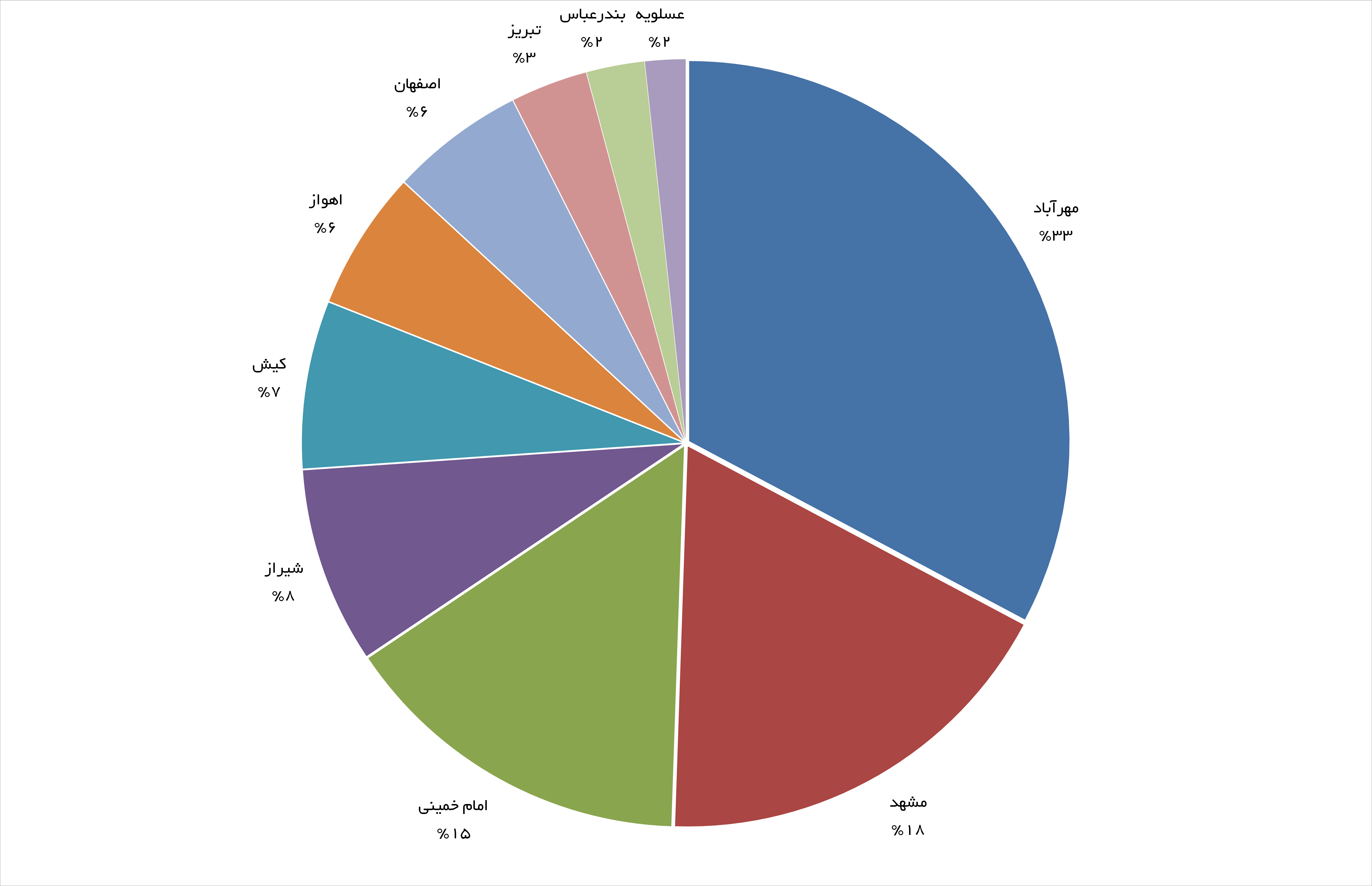 Busiest airports in Iran by Aircraft movement in 2015